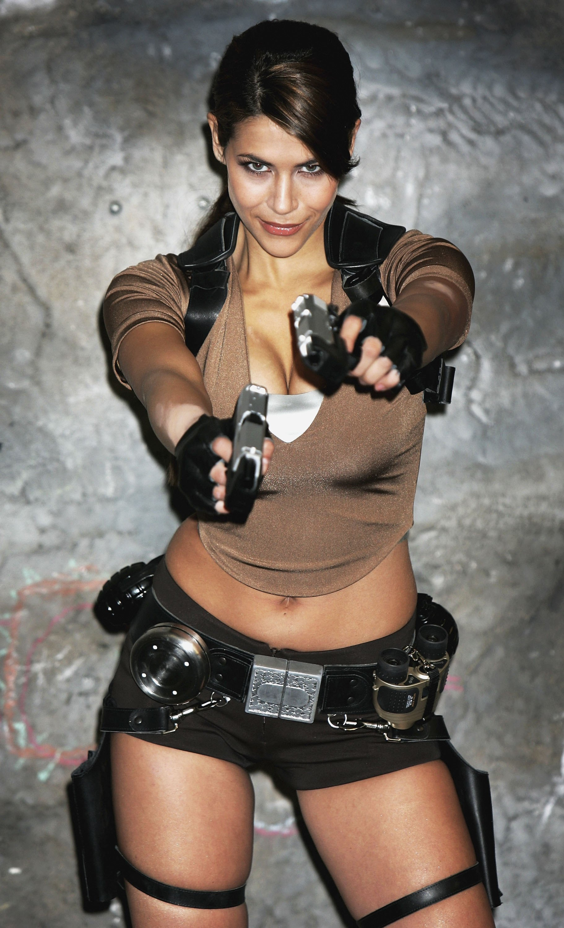 Celebrity city Karima Adebibe.